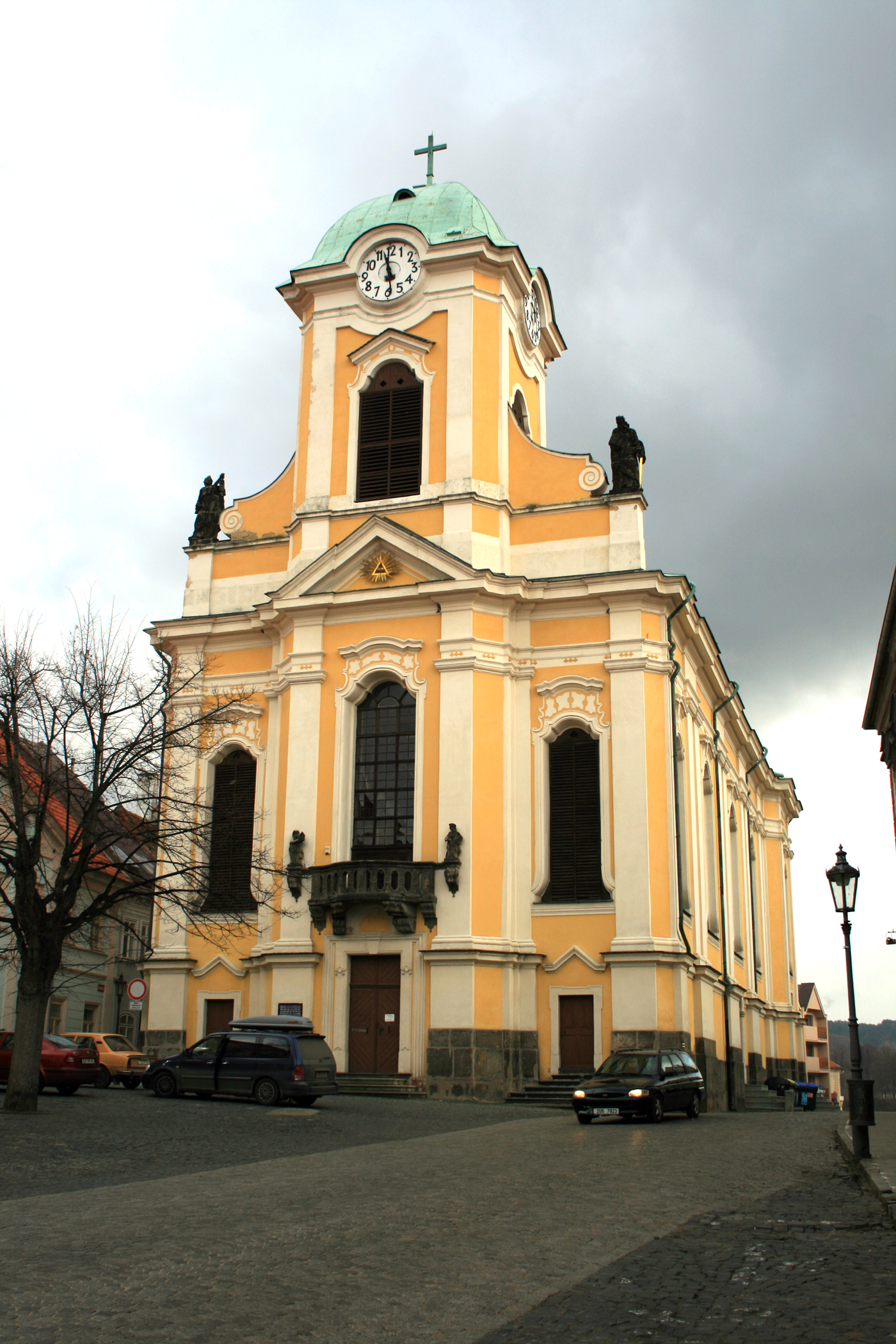 Church of SS Peter and Paul in small town of Úštěk in north Bohemia Date = February 2008 Author = Karelj